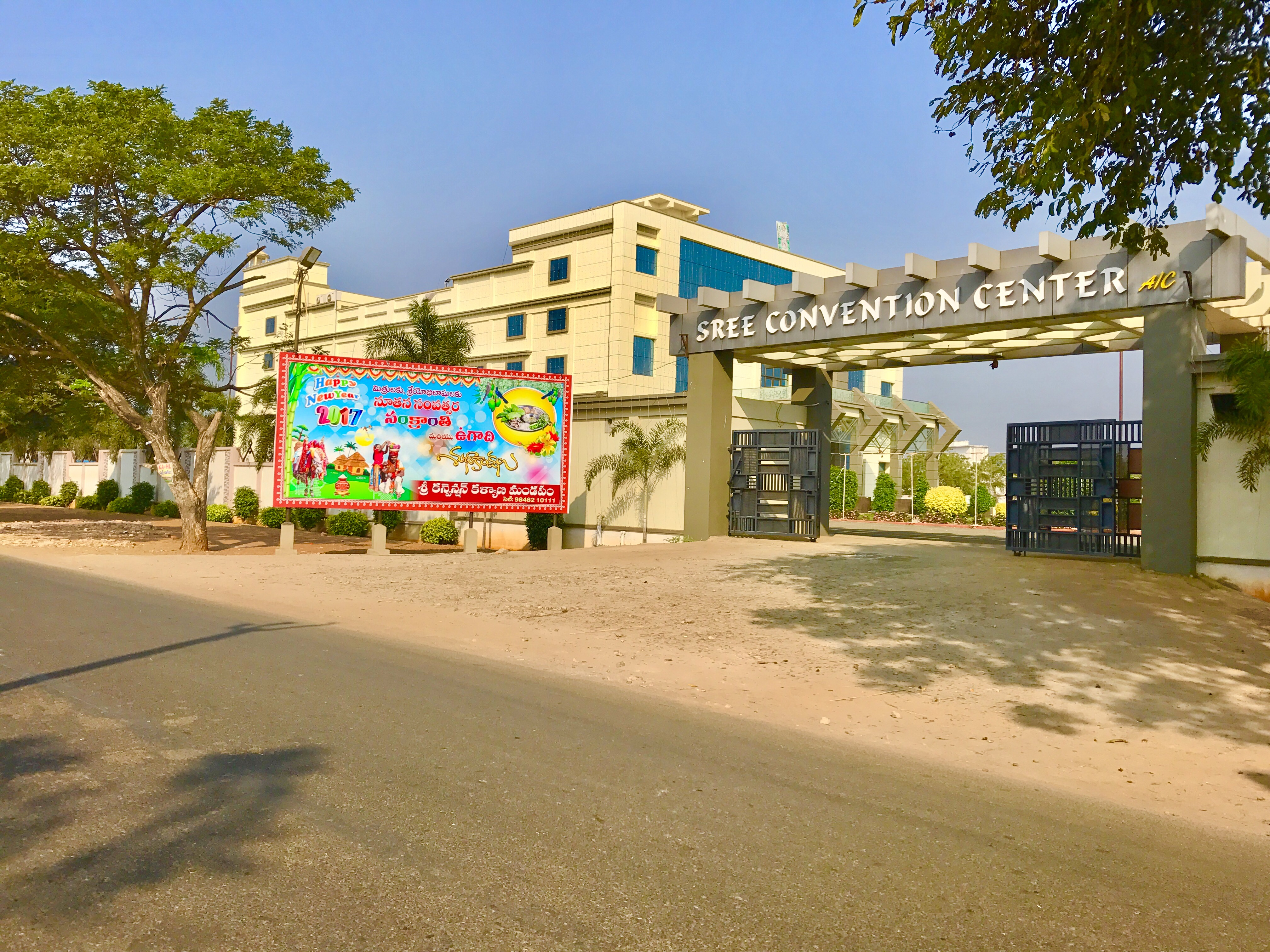 Sree convention centre on Vijayawada road